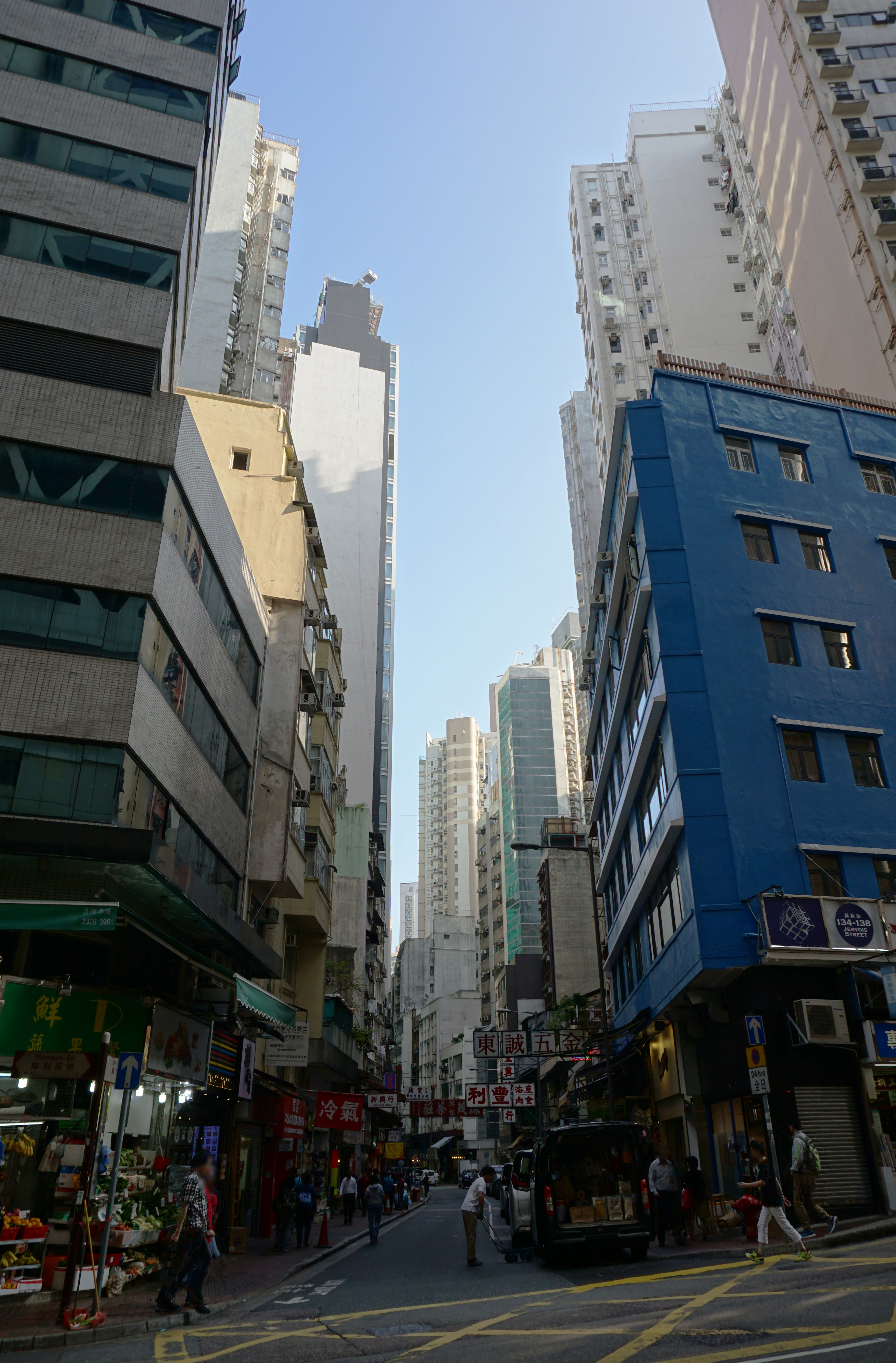 Jervois Street in Sheung Wan, Hong Kong.